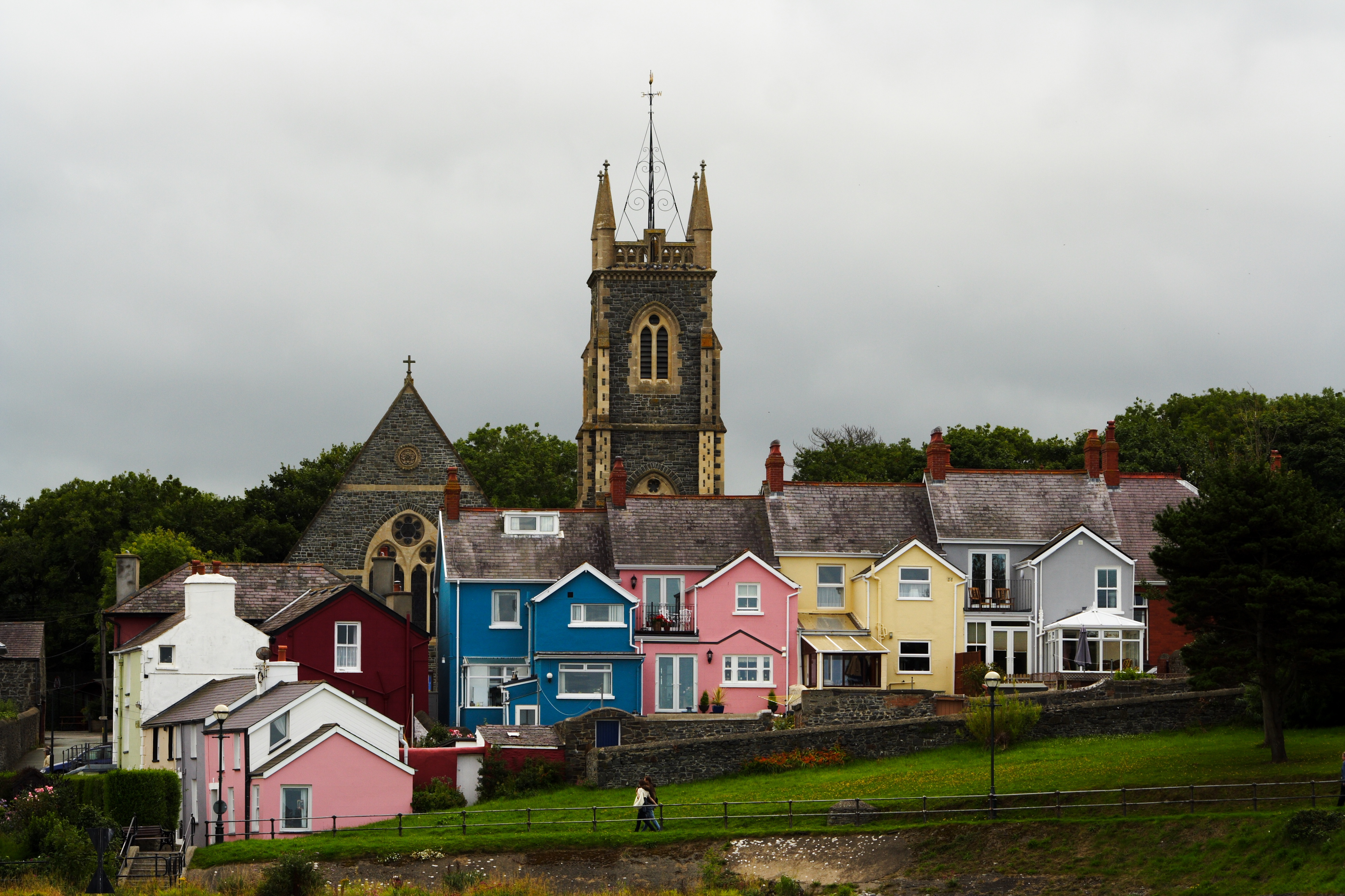 Colourful houses standing out in grayness, Aberaeron